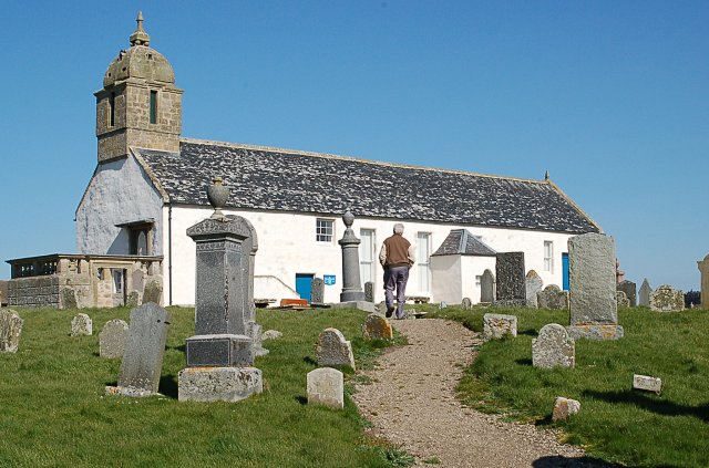 Old Tarbat Parish Church, Portmahomack, Scotland